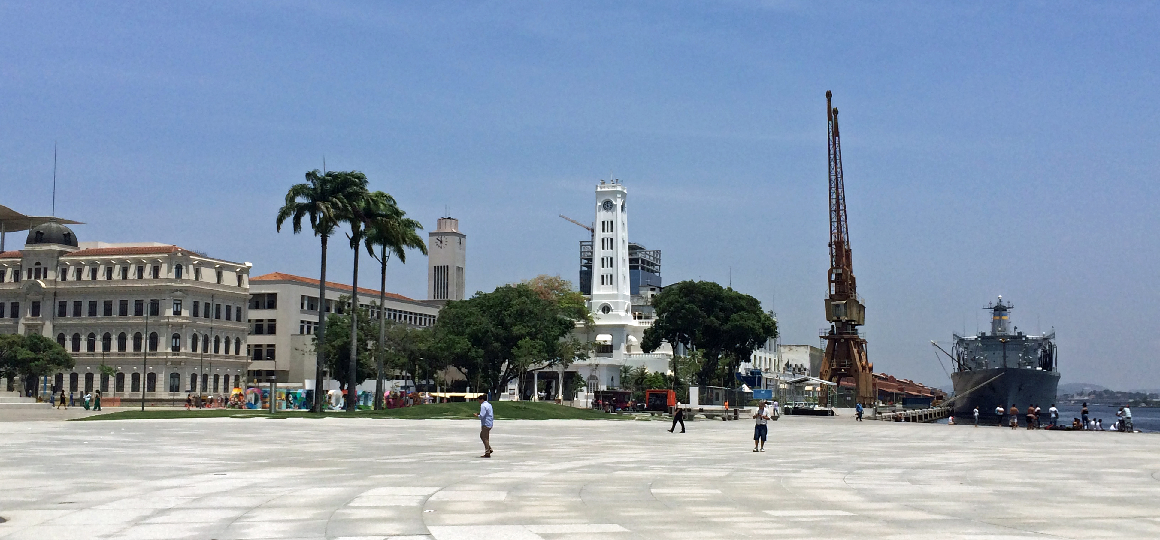 Praça Mauá, Rio de Janeiro